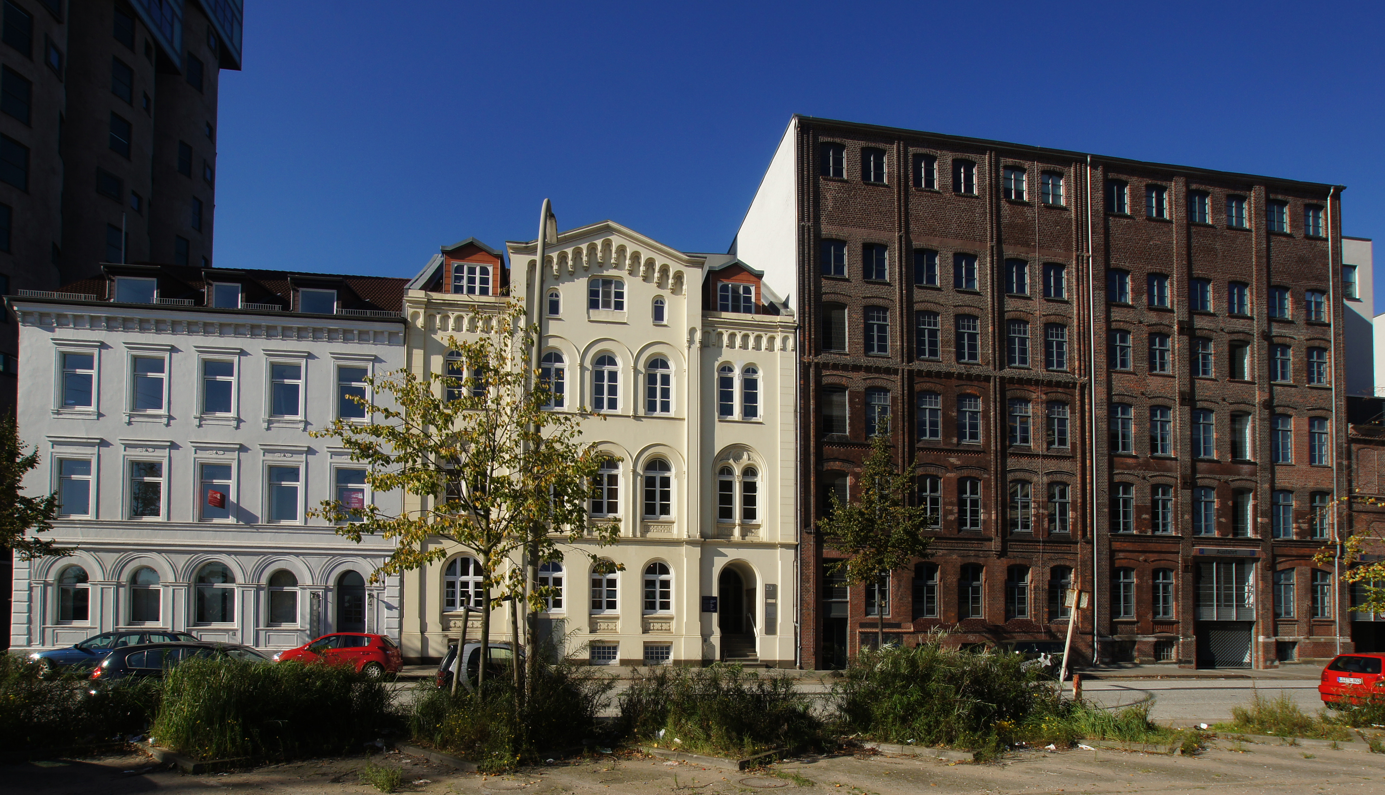 Hamburg (Harburg), Germany: Former merchants' and warehouses at the former freight station